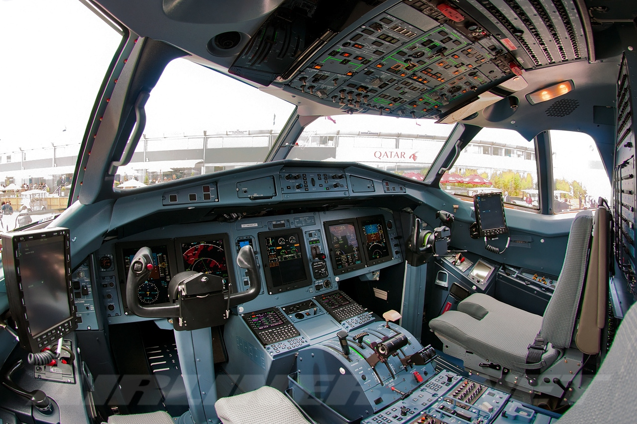 First cockpit ATR-72-600 series, to be delivered to Royal Air Maroc Express.